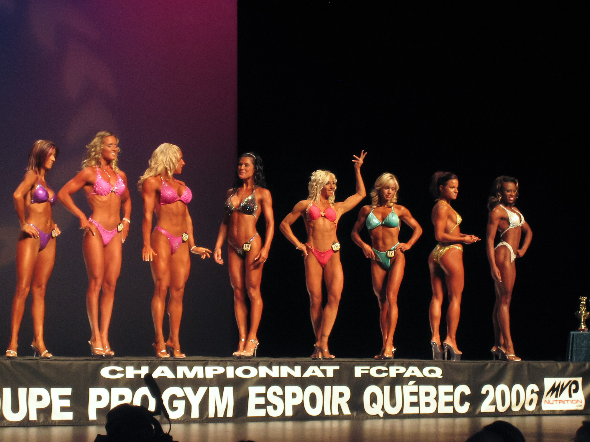 Line-up of Body Fitness competition.